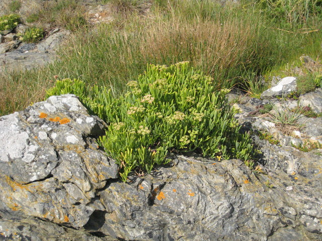 Samphire (Crithmum maritimum) Growing on rocks at the back of the beach at Godrevy.